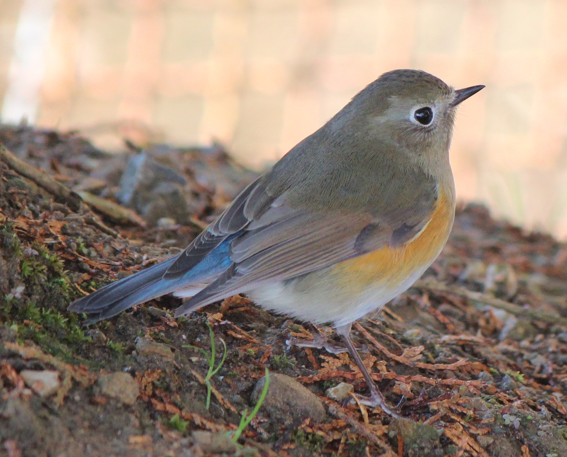 Tarsiger cyanurus (Red-flanked Bluetail), female in Mie prefecture, Japan.